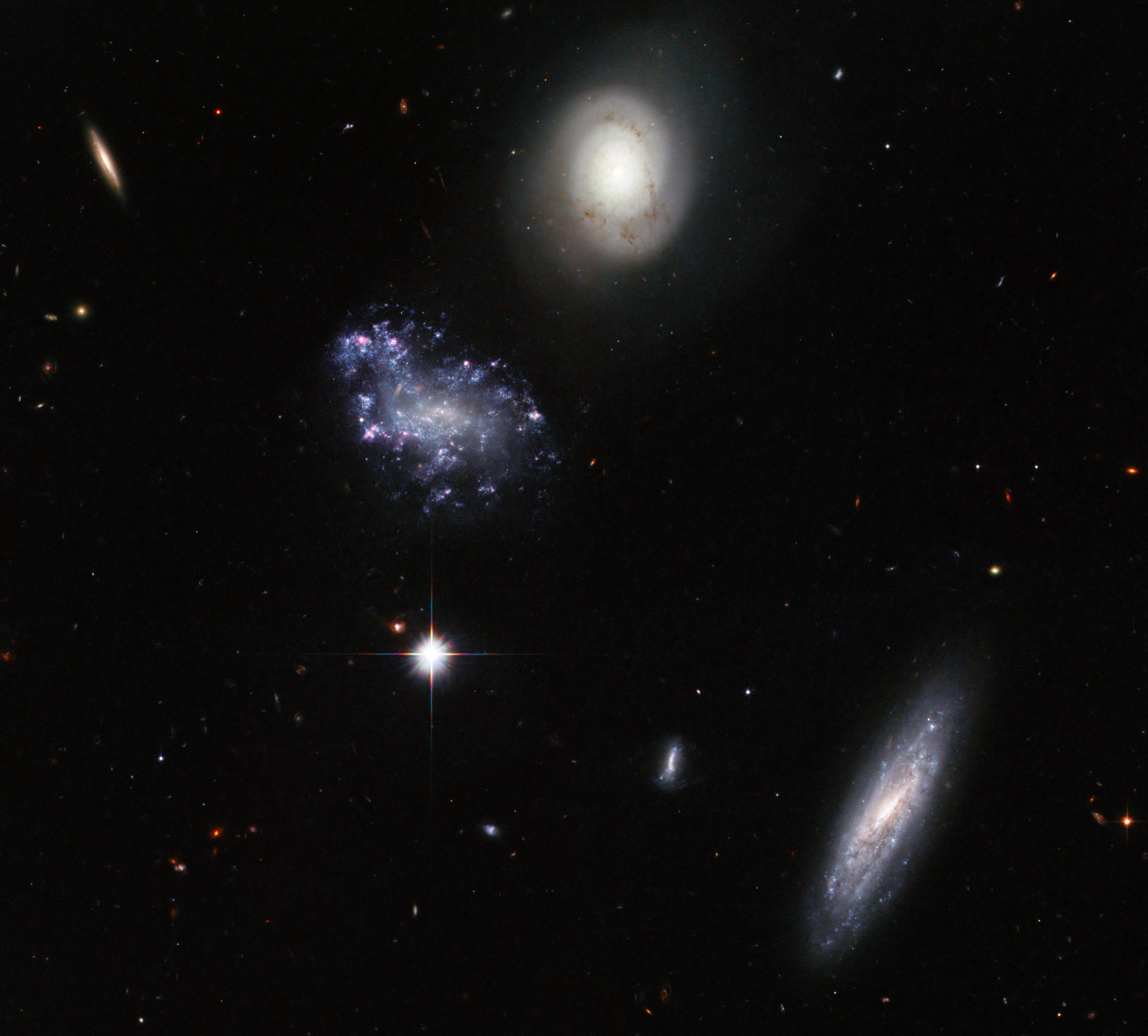 That galaxies come in very different shapes and sizes is dramatically demonstrated by this striking Hubble image of the Hickson Compact Group 59. Named by astronomer Paul Hickson in 1982, this is the 59th such collection of galaxies in his catalogue of unusually close groups. What makes this image interesting is the variety on display. There are two large spiral galaxies, one face-on with smooth arms and delicate dust tendrils, and one highly inclined, as well as a strangely disorderly galaxy featuring clumps of blue young stars. We can also see many apparently smaller, probably more distant, galaxies visible in the background. Hickson groups display many peculiarities, often emitting in the radio and infrared and featuring active star-forming regions. In addition their galaxies frequently contain Active Galactic Nuclei powered by supermassive black holes, as well large quantities of dark matter. The NASA/ESA Hubble Space Telescope's Advanced Camera for Surveys, using the Wide Field Channel, captured this image of HCG059 in 2007. The picture was created from images taken through blue, yellow and near-infrared filters (F435W, F606W and F814W). The total exposure times per filter were 57 minutes, 41 minutes and 35 minutes respectively. The field of view is about 3.4 arcminutes across.